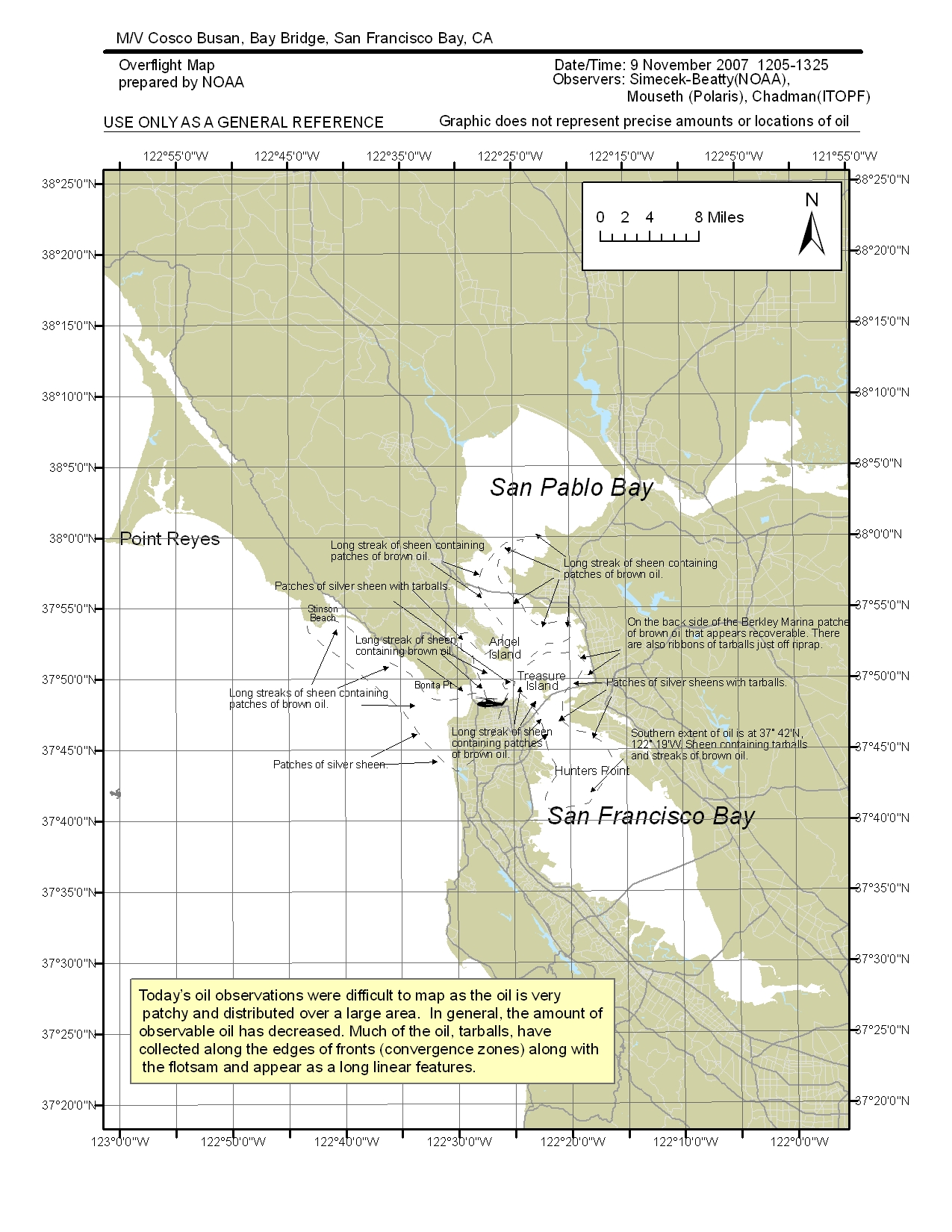 Map of the M/V Cosco Busan oil spill, San Francisco Bay, CA - NOAA Overflight Map Nov 9, 2007 1205-1325 Posting Date 2007-Nov-09